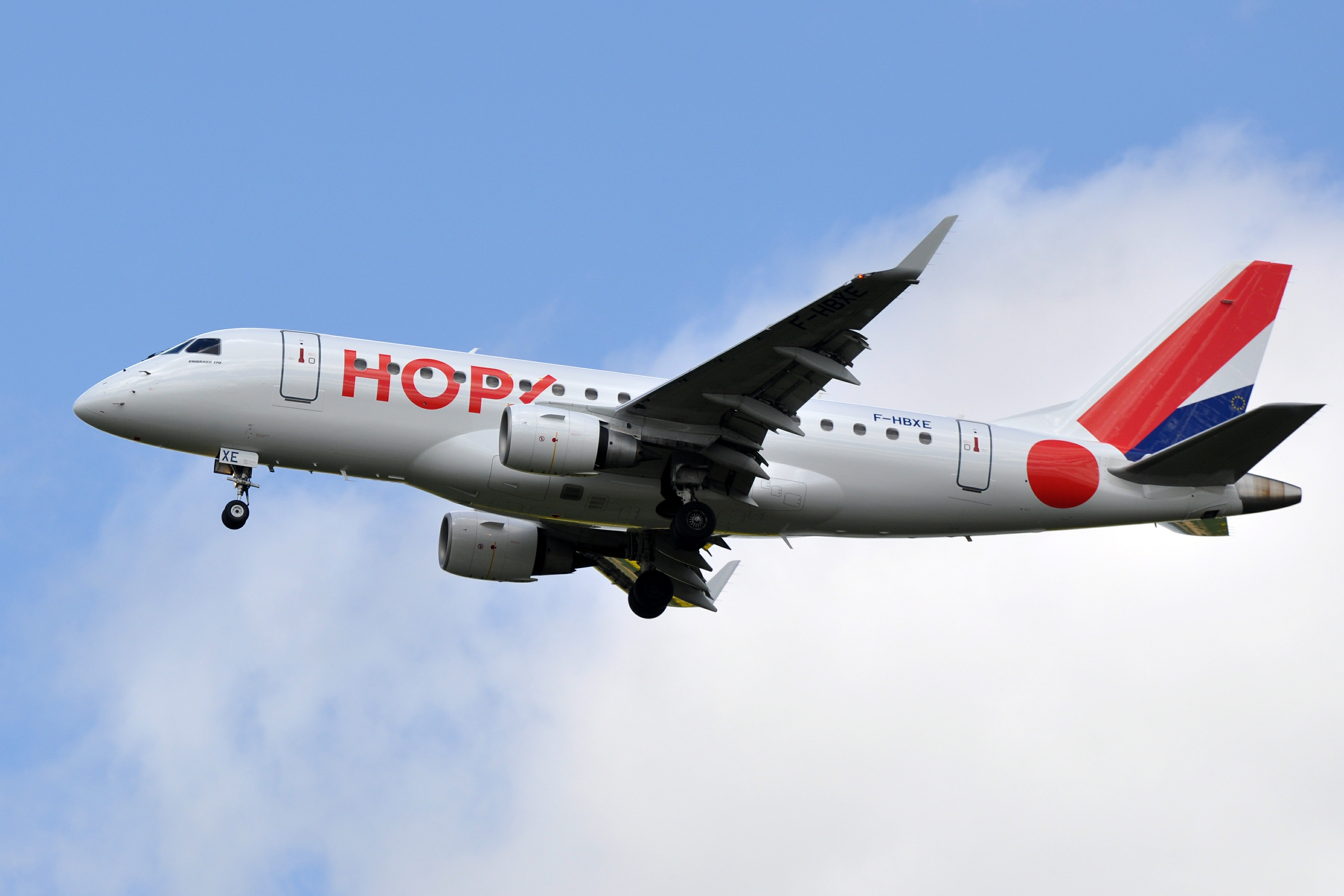 MSN 286 EMB 170 STD HOP / REGIONAL / AIR FRANCE CDG